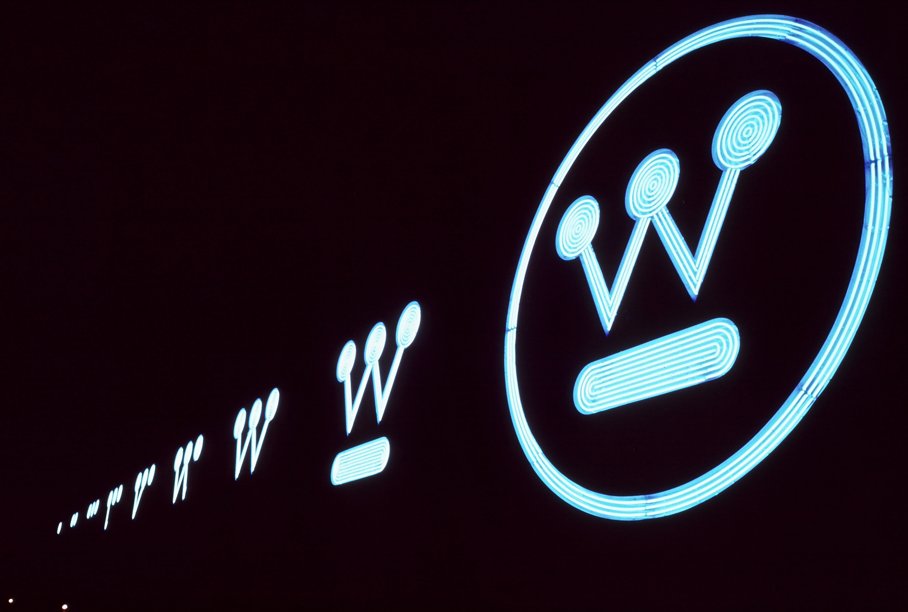 Computer-controlled Westinghouse sign atop the Wesco Building in Pittsburgh, Pennsylvania. The sign was demolished in 1998.